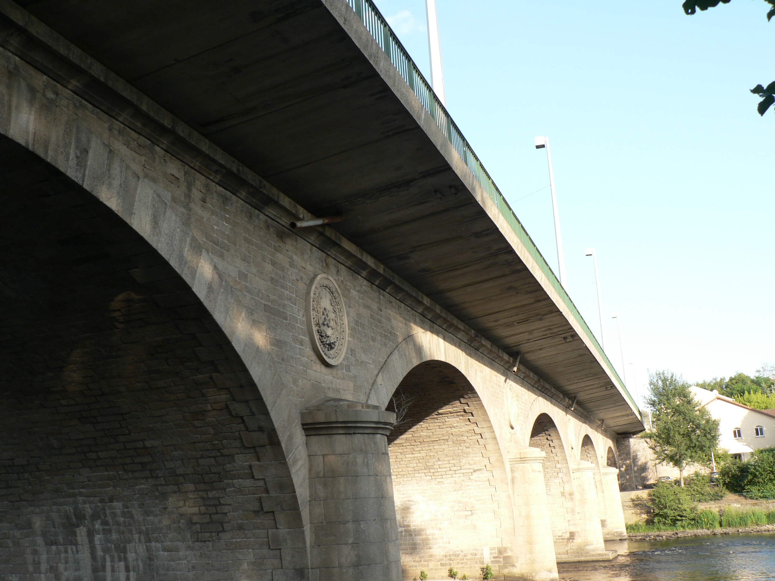 Bridge of the Revolution, Limoges, France